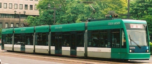 hiroshima tramway 5009 (combino)